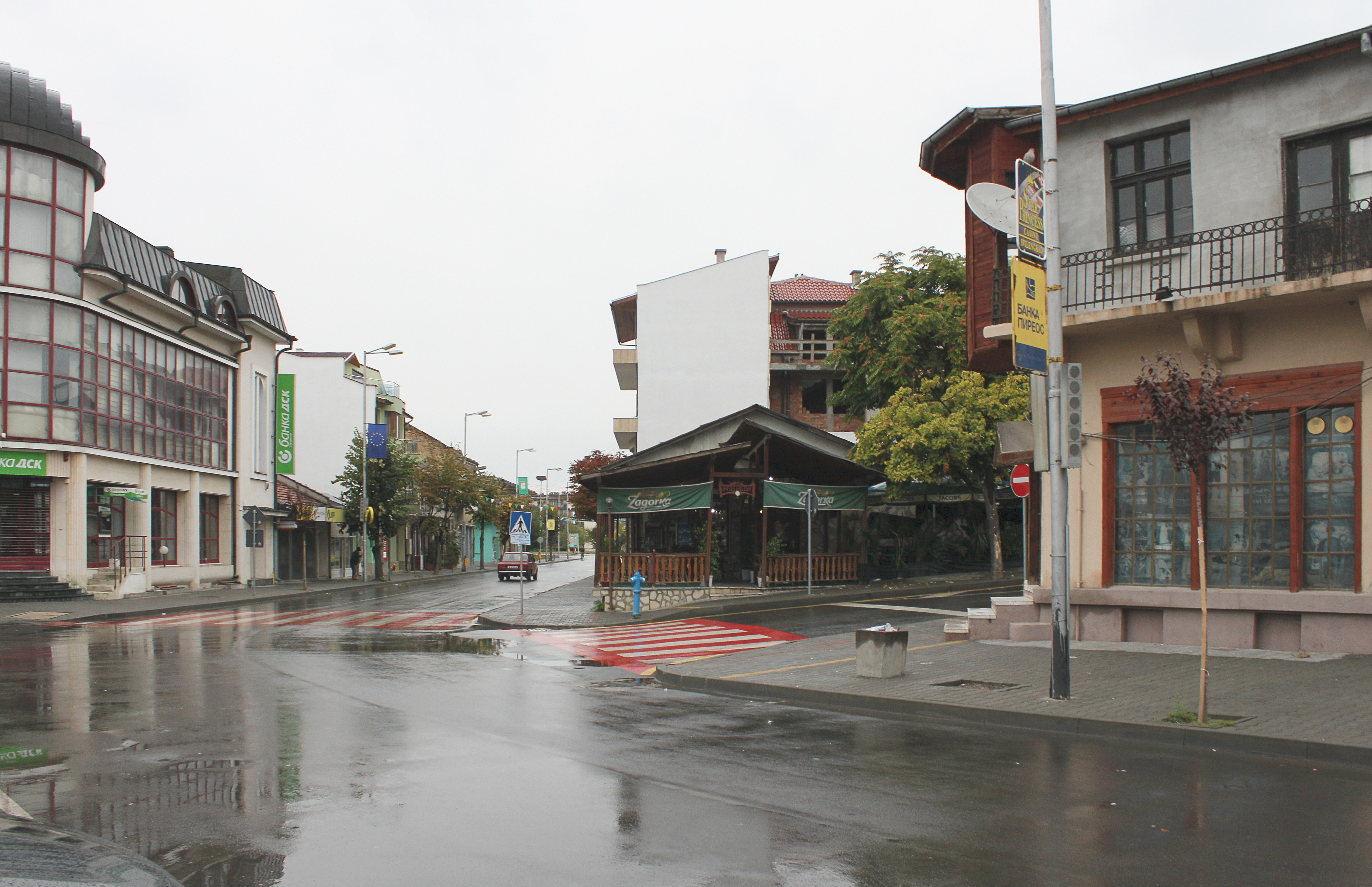 Swilengrad